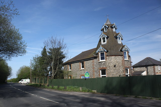 Tower Folly, Gravesend Road, Wrotham, Kent Once part of Millars Farm, this is one of the first oast houses to be converted to a home in 1903. It is rather unique with its 13 windows in the kiln roof. An old photo can be seen here